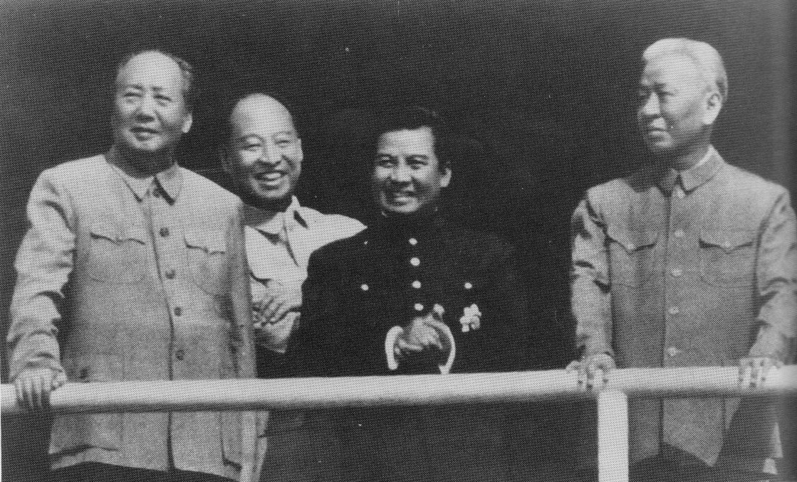 From left: Mao Zedong, Peng Zhen, Norodom Sihanouk and Liu ShaoqiText caption: Judging that relations with China were important to Cambodia's fragile neutrality. Prince Norodom Sihanouk (in the dark tunic) went to Peking in 1965 for discussions with Chairman Mao Tse-tung (left). (Center of Military History)